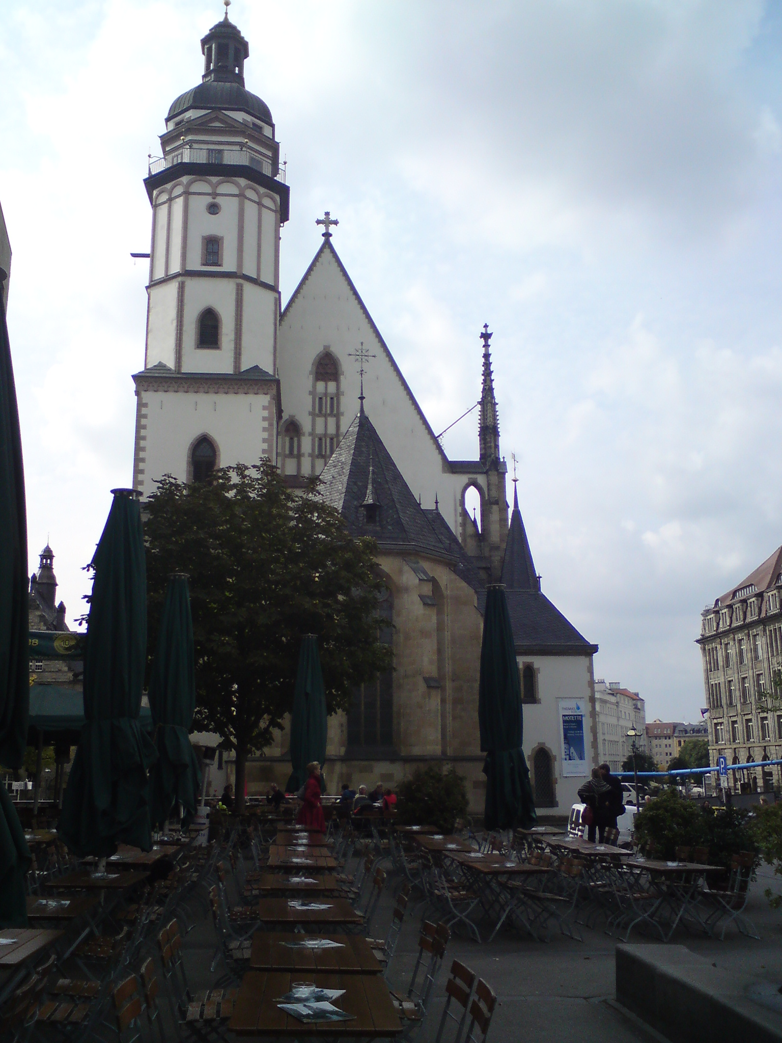 St. Thomas Church in Leipzig